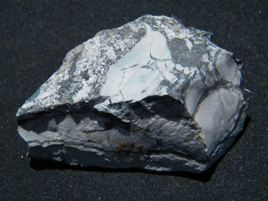 Glauconite (Dimensions: 2" x 1" x 1") Locality: Newport Quarry (Thompson-McCully quarry), Newport, Monroe County, Michigan, USA Cherty mass with pale green glauconite. Some fine quartz druse is also scattered about the specimen.